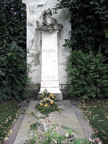 Honorary grave of Johannes Brahms at the Zentralfriedhof in Vienna